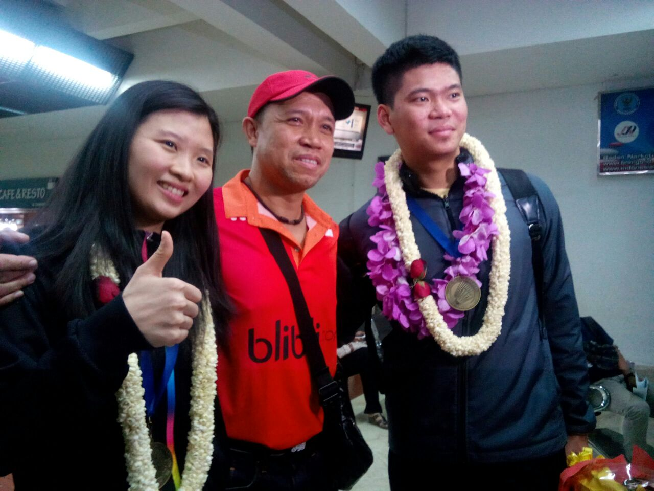 Debby Susanto, Richard Mainaky, Praveen Jordan during the welcoming ceremony after winning 2016 All England Super Series Premier